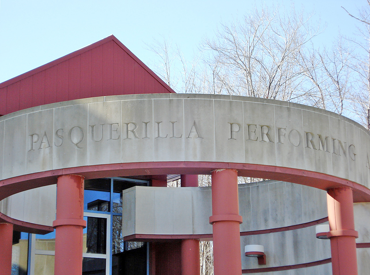 Pasquerilla Performing Arts Center at the University of Pittsburgh at Johnstown